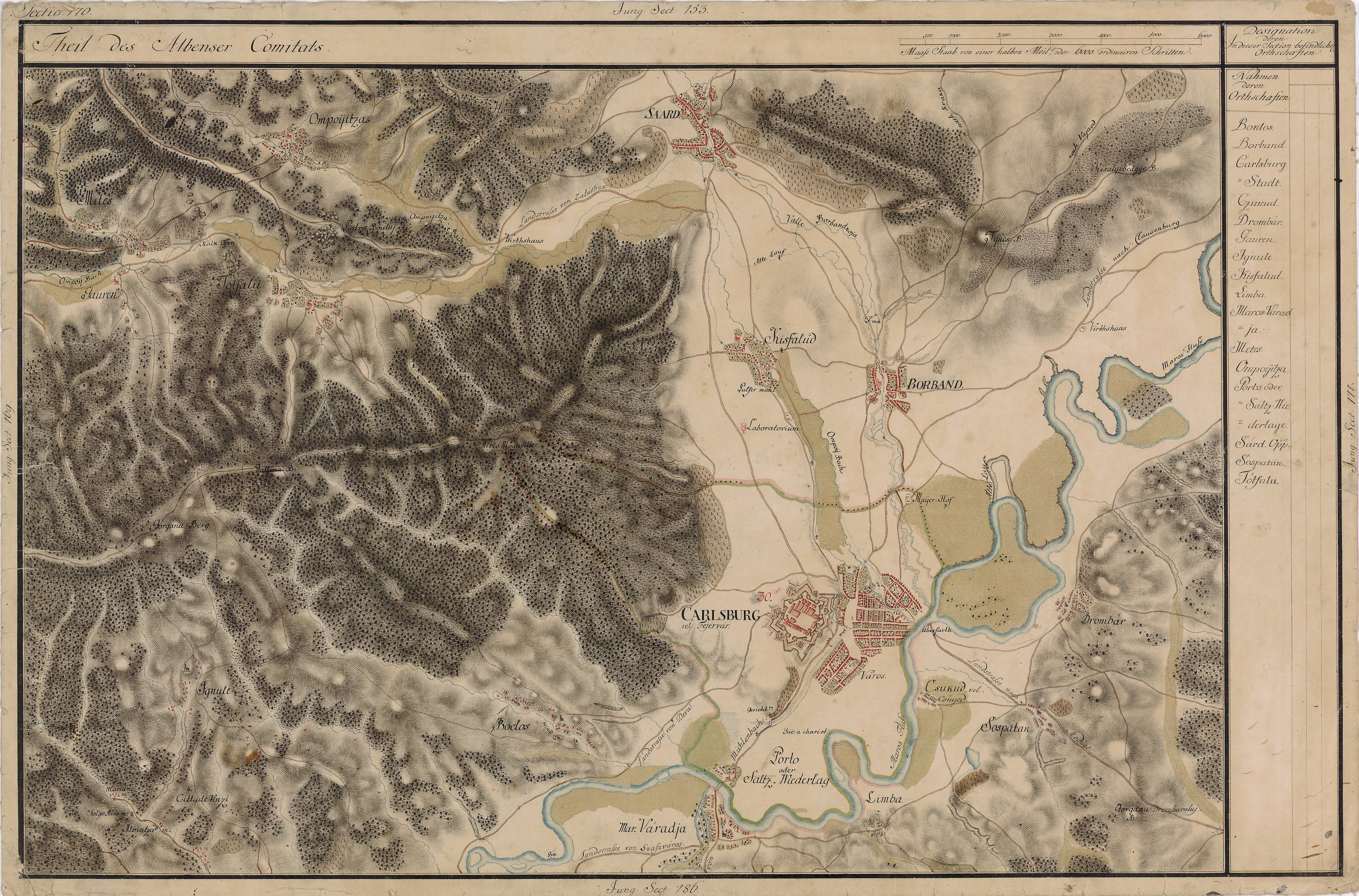 Grand Duchy of Transylvania, 1769-1773. Josephinische Landaufnahme pg.170